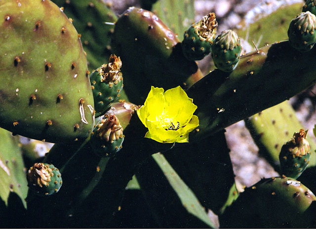 Dick Culbert: Opuntia decumbens forms a tree cactus native from Mexico to Costa Rica. It goes by names such as Nopal de Culebra and Lengua de Vaca. This latter Cow's Tongue name seems to be applied to several species with glochid clusters rather than spines.